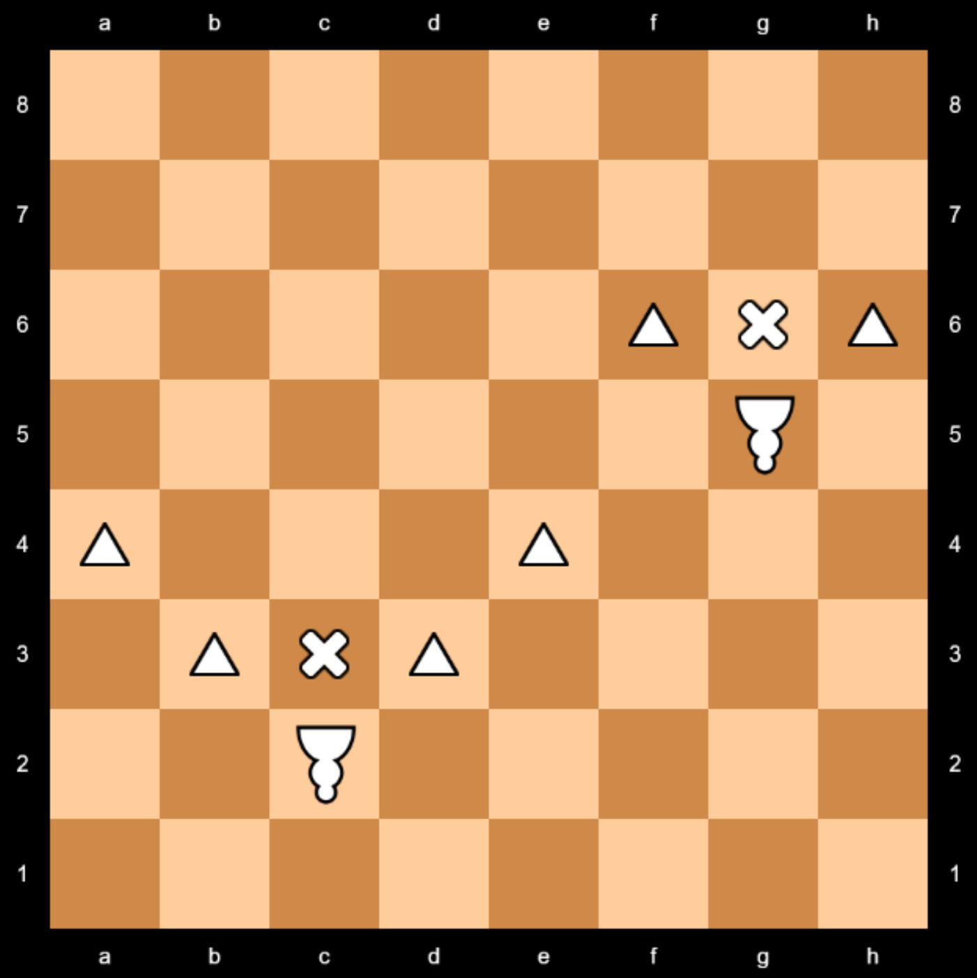 Berolina Pawn or anti-Pawn: Can move one square Diagonally forward and can capture one square Vertically forward.